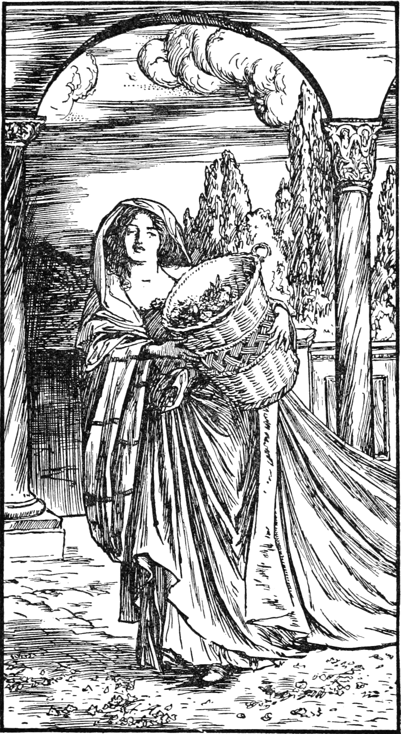 Illustration from a book of fairy tales